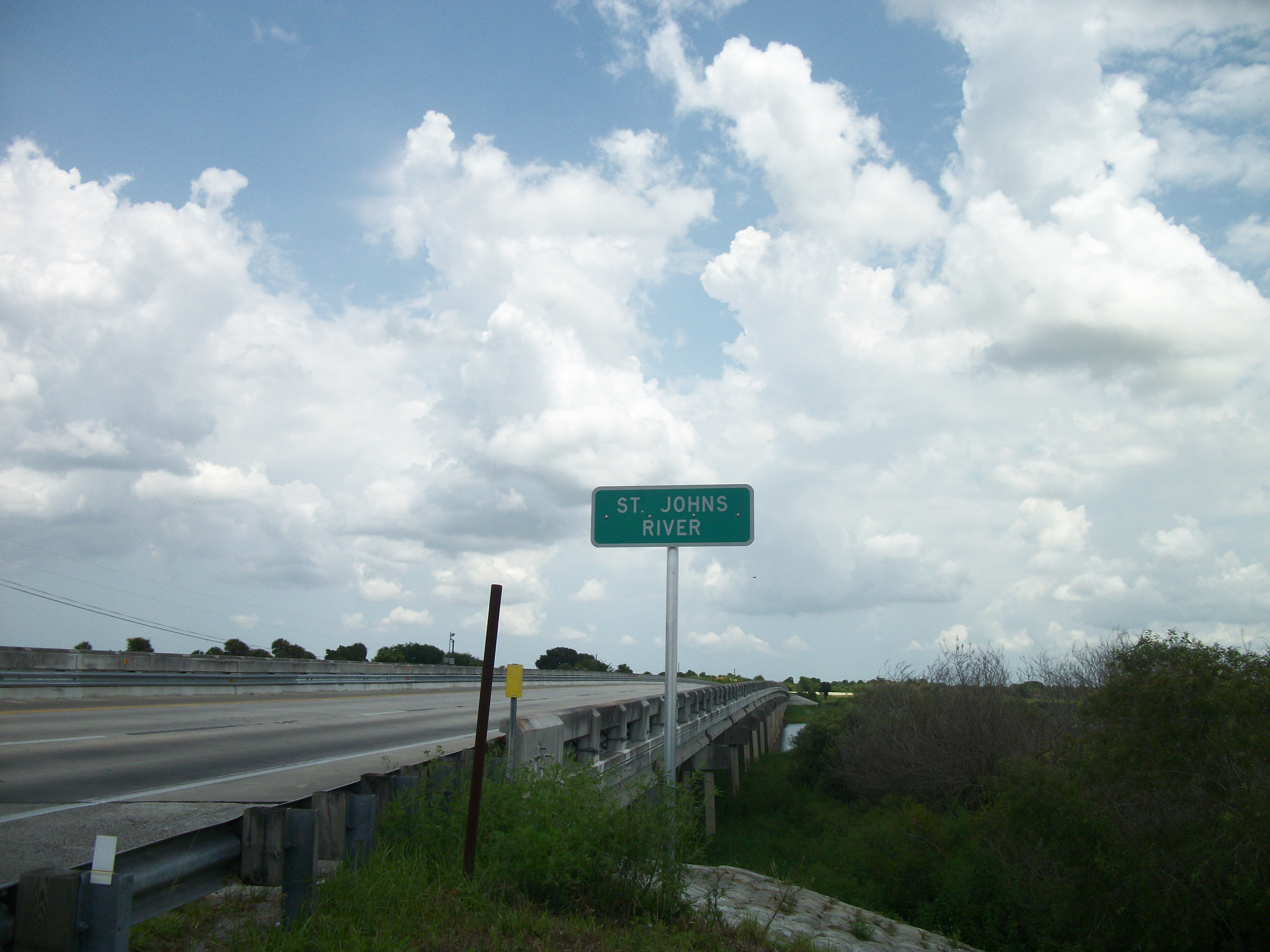 Eastbound Florida State Road 50 as it approaches a bridge over the St. Johns River and a sign identifying the river. Another bridge over another river up ahead also identifies that as the St. Johns River(one of them must be wrong), but also identifies the Brevard County Line. Taken from the embankment along the bridge.